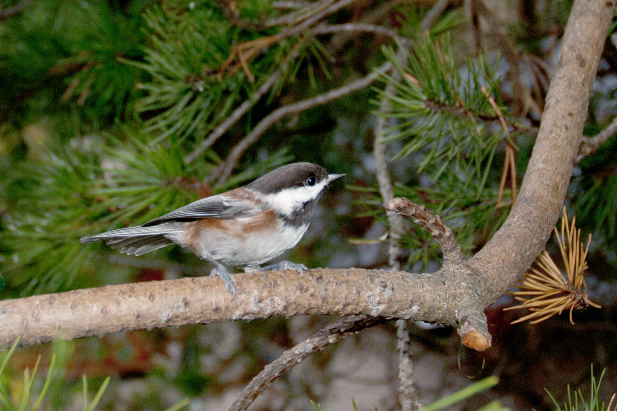 Chestnut-backed Chickadee Poecile rufescens. Vancouver, Canada.